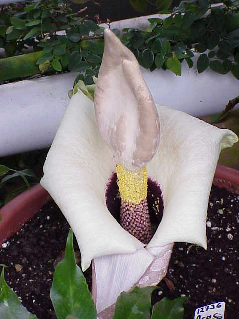 Species: Amorphophallus prainii Family: Araceae Image No. 1